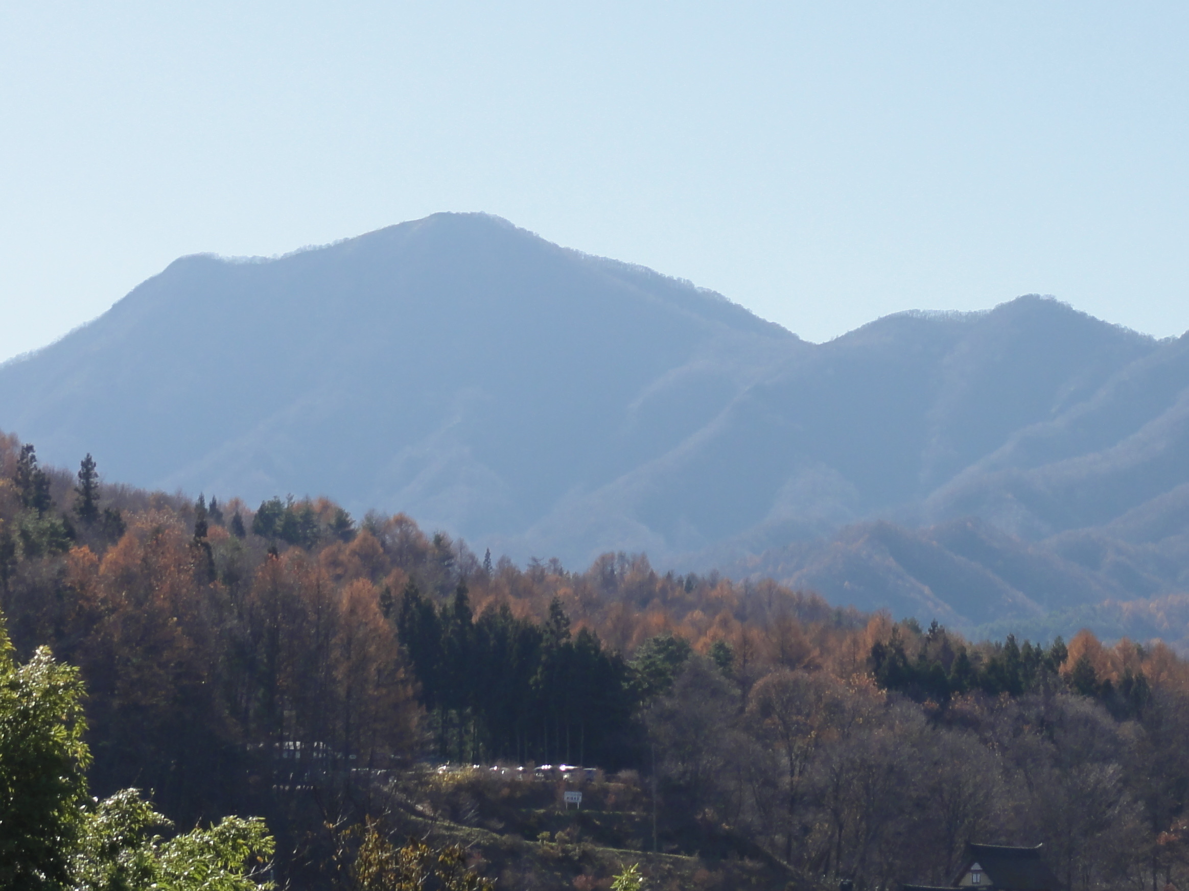 Mt Asamakakushiyama seen from the NNE in Gunma Prefecture, Japan